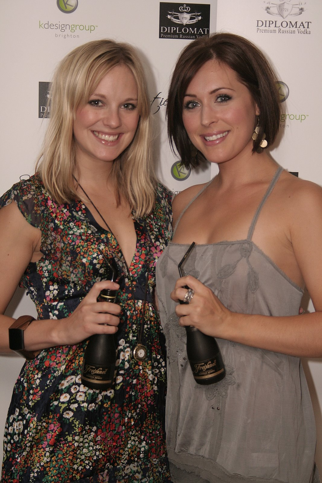 Hollyoaks actresses Zoe Lister and Jennifer Biddall at an event